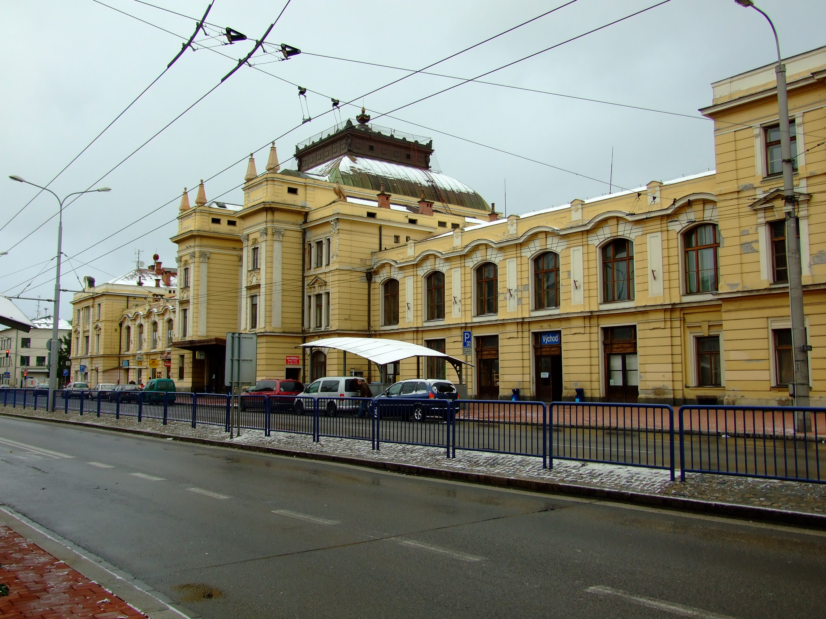 Train station in České Budějovice, South Bohemian region, CZhelp